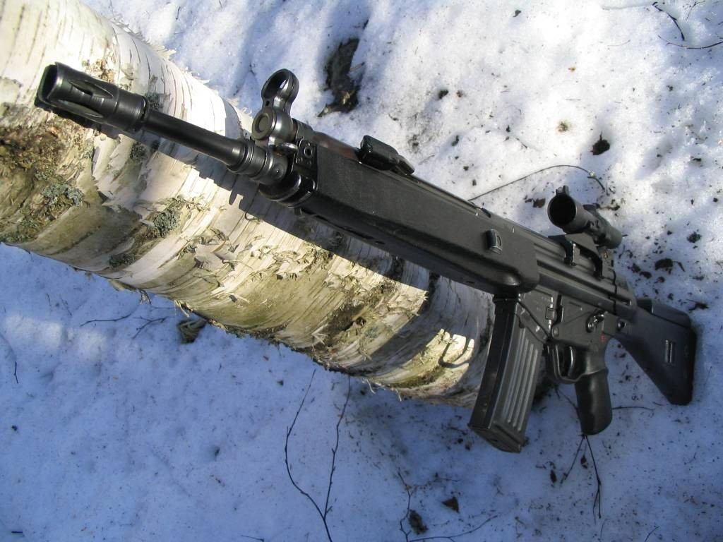 Heckler & Koch HK33A2 with Trijicon Compact ACOG resting on a Finnish birch tree